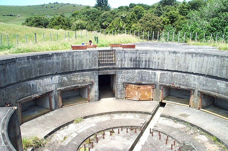 Gun emplacement at Stony Batter, Waiheke Island, New Zealand